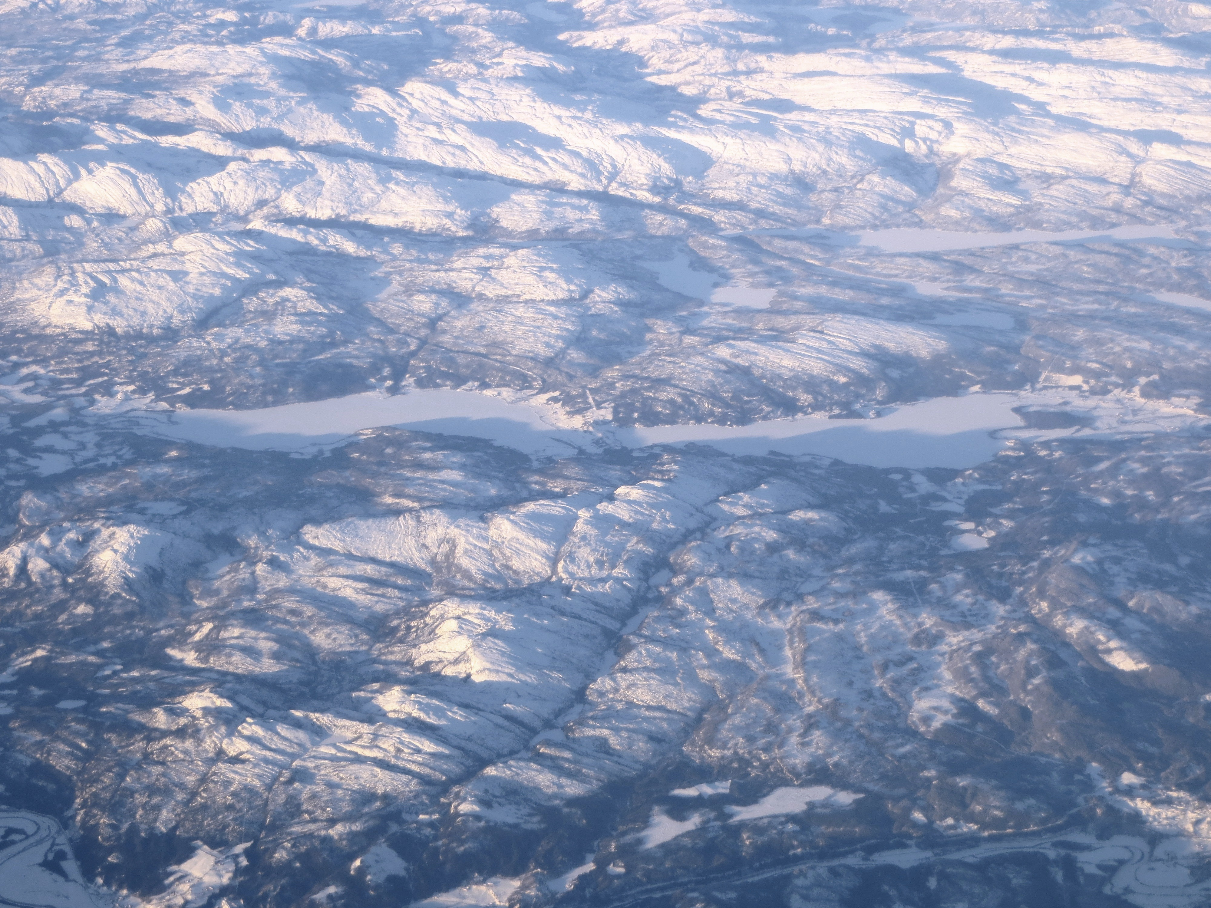 Aerial viev from the east towards the west, over Høylandet municipality in Nord-Trøndelag county- Norway.